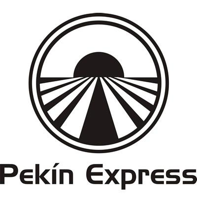 The symbol of the Beijing Express program from Spain in the Channel Four